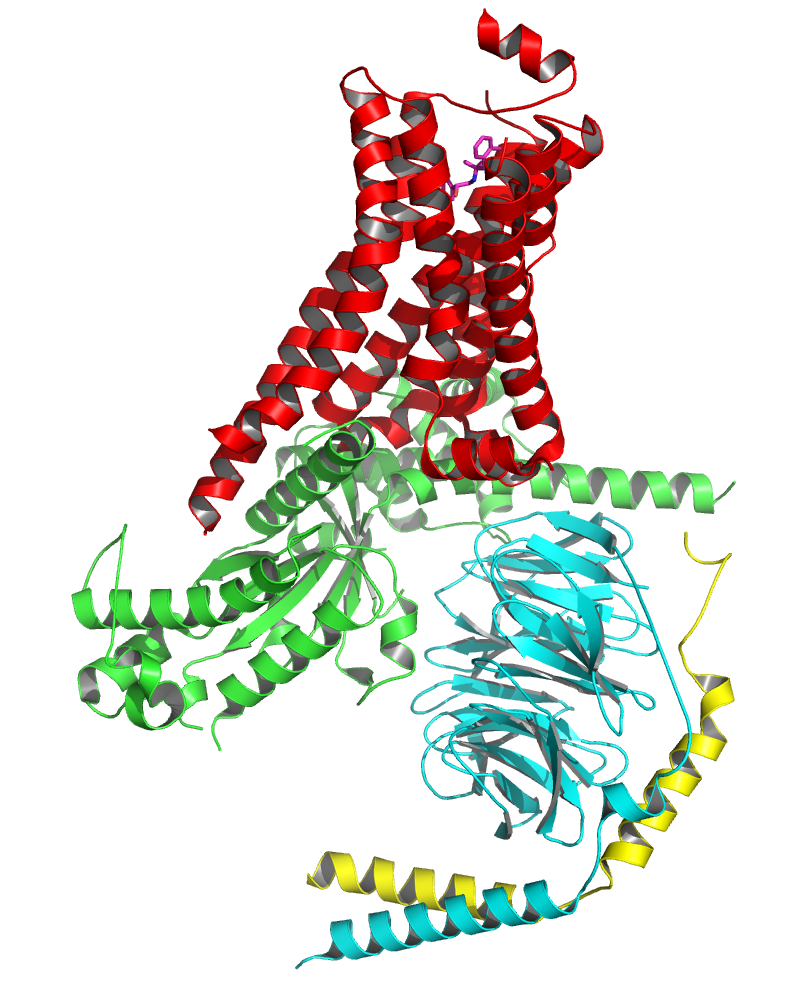 Crystal structure of activated beta-2 adrenergic receptor in complex with Gs. The receptor is colored red, Gα green, Gβ cyan and Gγ yellow. T4 Lysozyme and nanobody, which were used to facilitate crystallization, are omitted for clarity. Note that the C-terminus of Gα is located in a cavity created by an outward movement of the cytoplasmic parts of TM5 and 6. Rendered from PDB entry 3SN6.